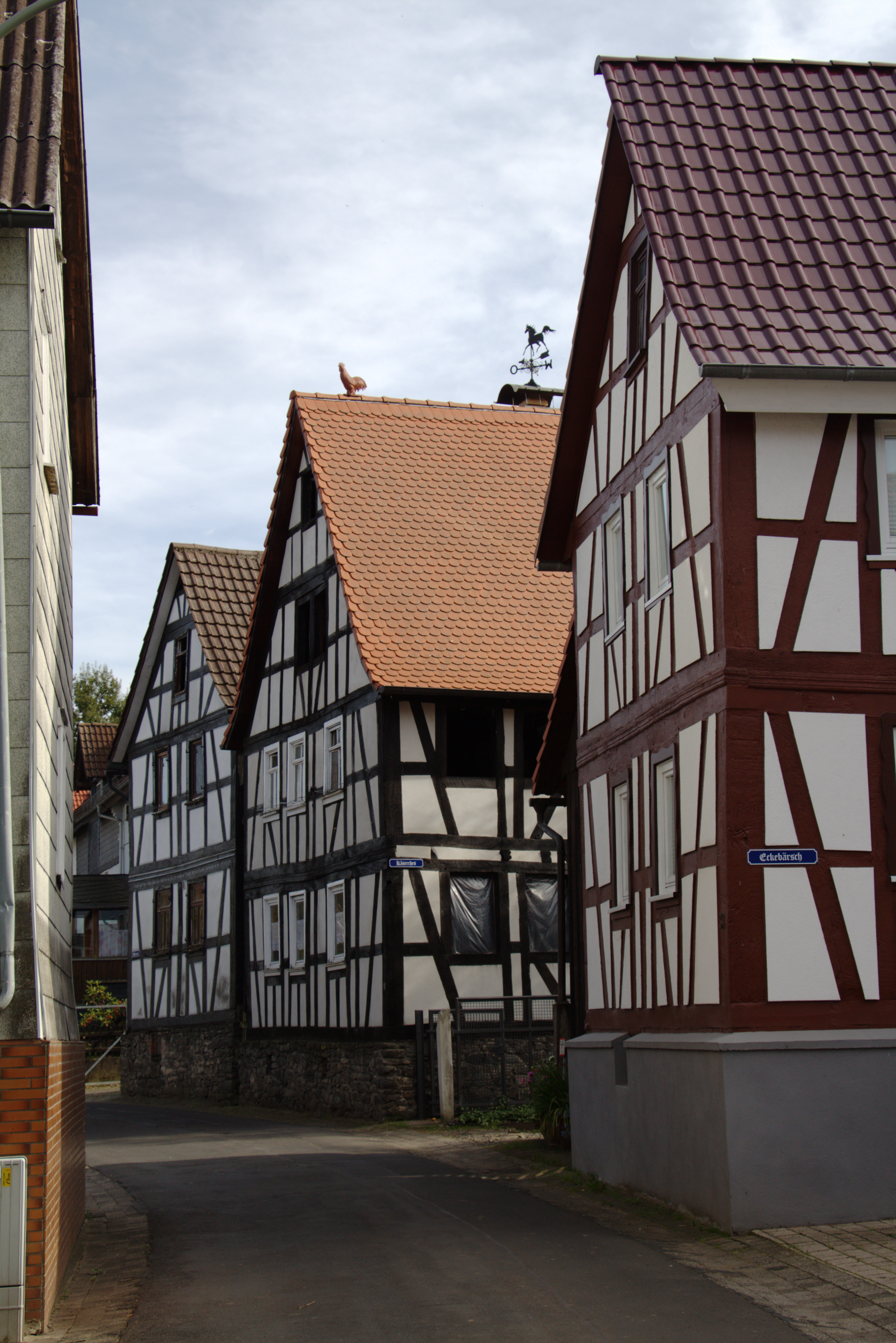 Half-timbered building in Schotten, Rainrod, Eichelsaechser Strasse, Hesse, Germany